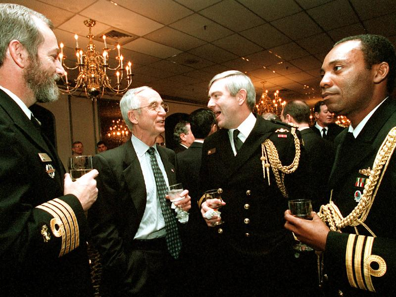 Washington, D.C., Nov. 7, 2001 — "The best way to build relationships between countries is to build relationships between people," said the Honorable Gordon R. England, Secretary of the Navy, at the monthly Naval Attaché Association luncheon held at the Washington Navy Yard on 7 November 2001. The voluntary association meets to hear guest speakers, discuss issues of concern to the various navies and to build relationships. From left, Capt. Derek Christian, South African Naval Attaché; Mr. England; Commo. Nick Harris, British Naval Attaché; and Cmdr. George Alily, Nigerian Naval Attaché. [011107-N-5636P-001]